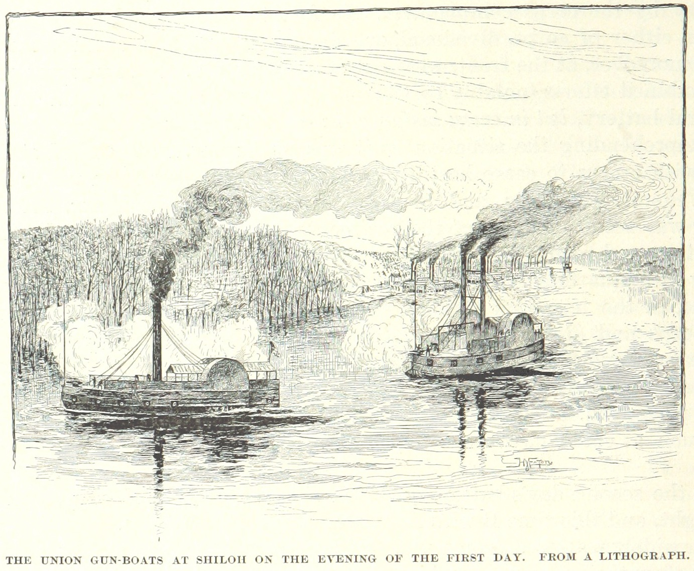 The gunboats USS Lexington and USS Tyler on the Tennessee River in the evening of the first day of the Battle of Shiloh. (Which is which, the uploader cannot tell).